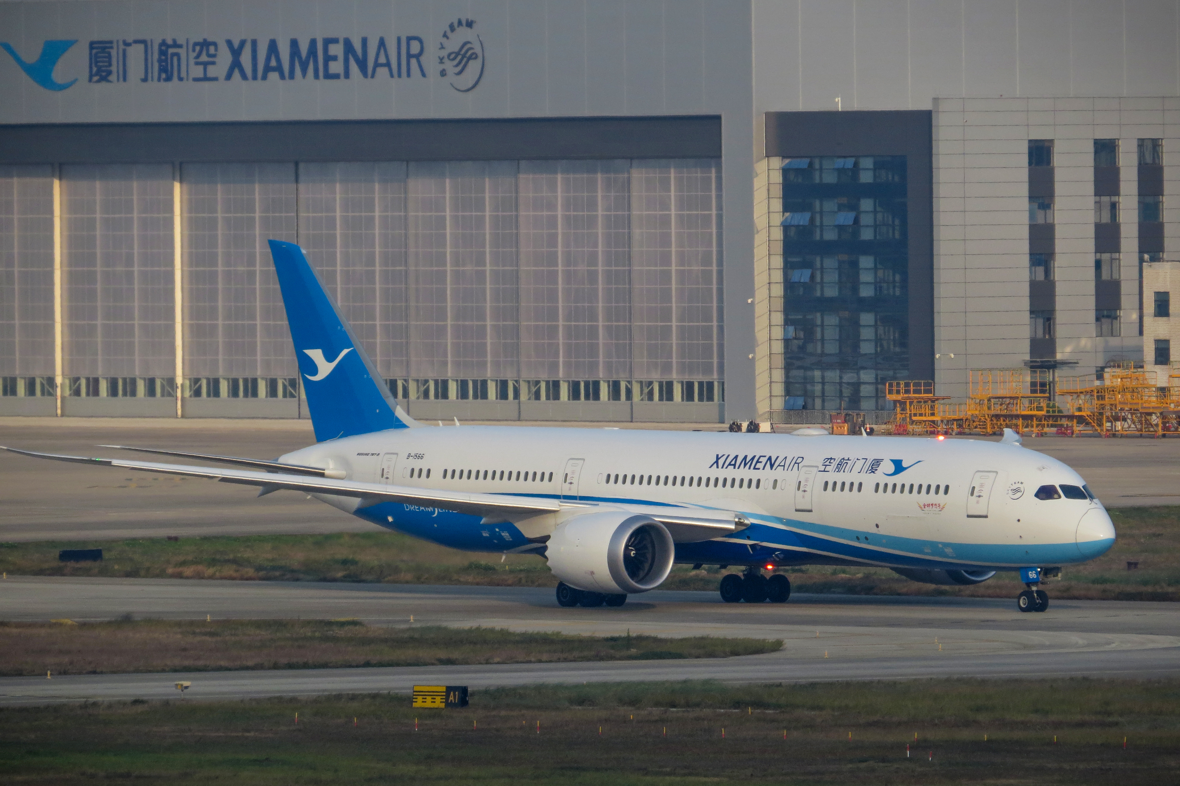 Xiamen Air 8171 to Beijing after a delay of 90 minutes.